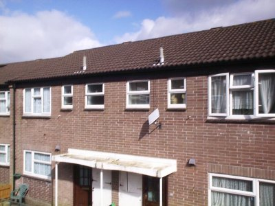 From my web page showing a Squarial installed on a house.